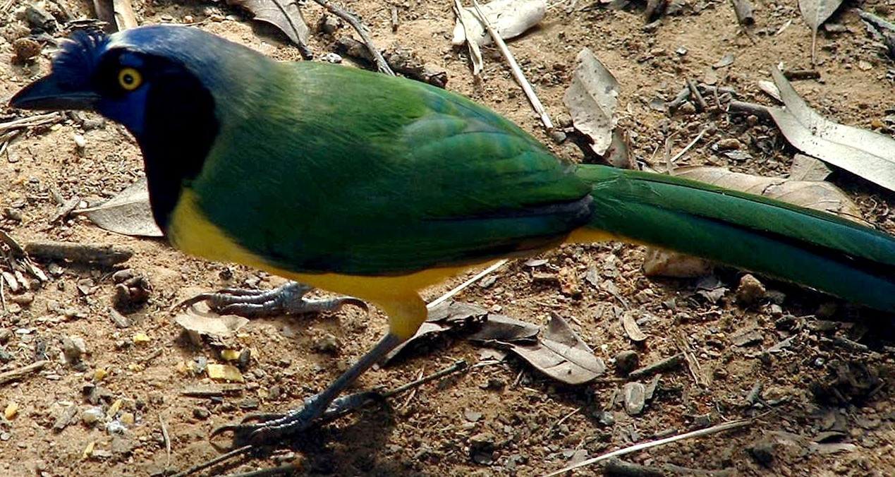 Close-up of an Inca Jay Cyanocorax yncas (locally known as Querre-querre). taken in the Park ranger's post "Sabas Nieves II" in the National Park "Ávila" in Caracas, Venezuela. A lot of these birds gather around the mountain-hikers (el Ávila is a mountain range) and when the hikers are calm enough the birds come down and eat really near. Sometimes closing in as much as to eat off a person's hand